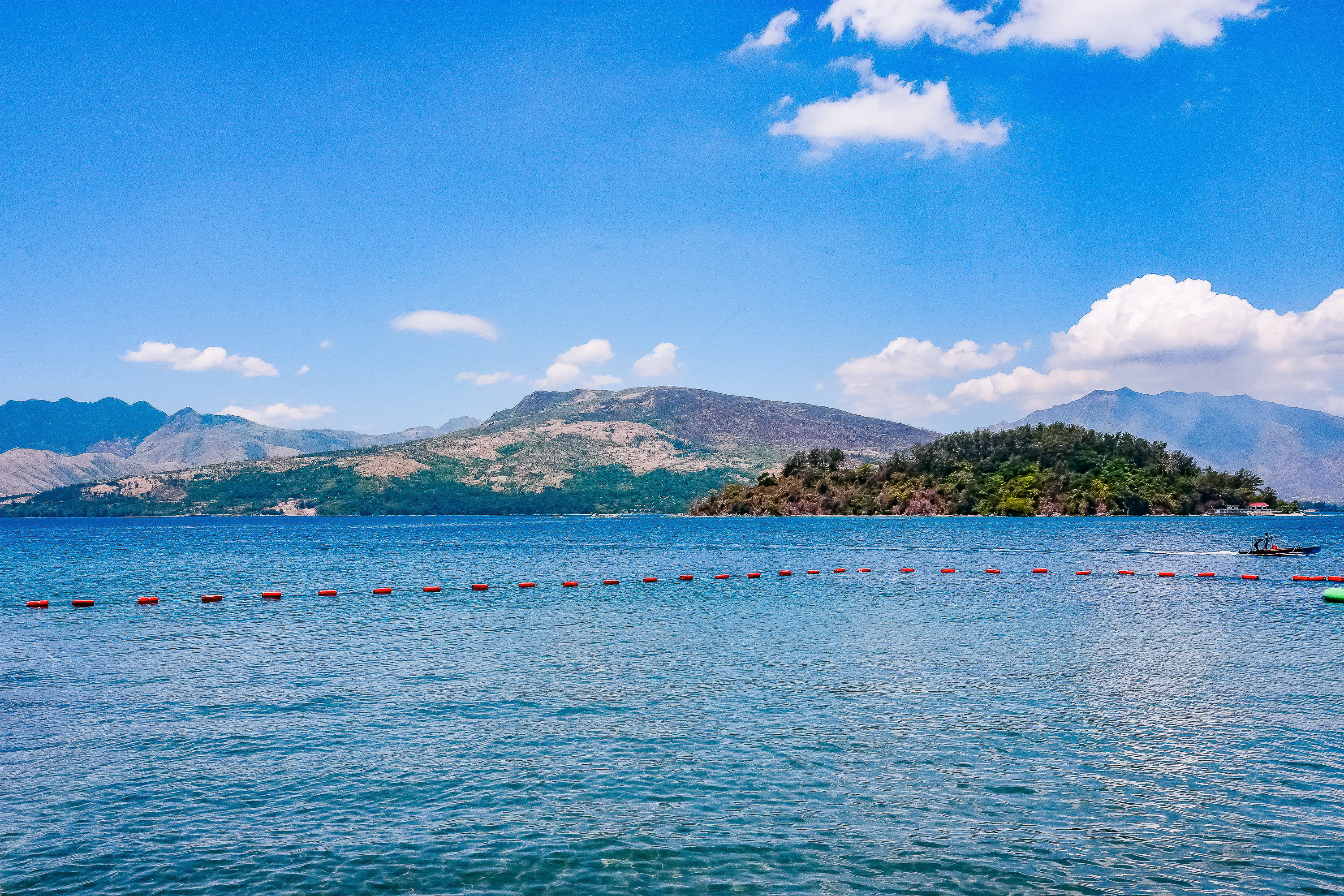 Depending on where you go in Subic Bay Philippines, images like this can usually be seen.